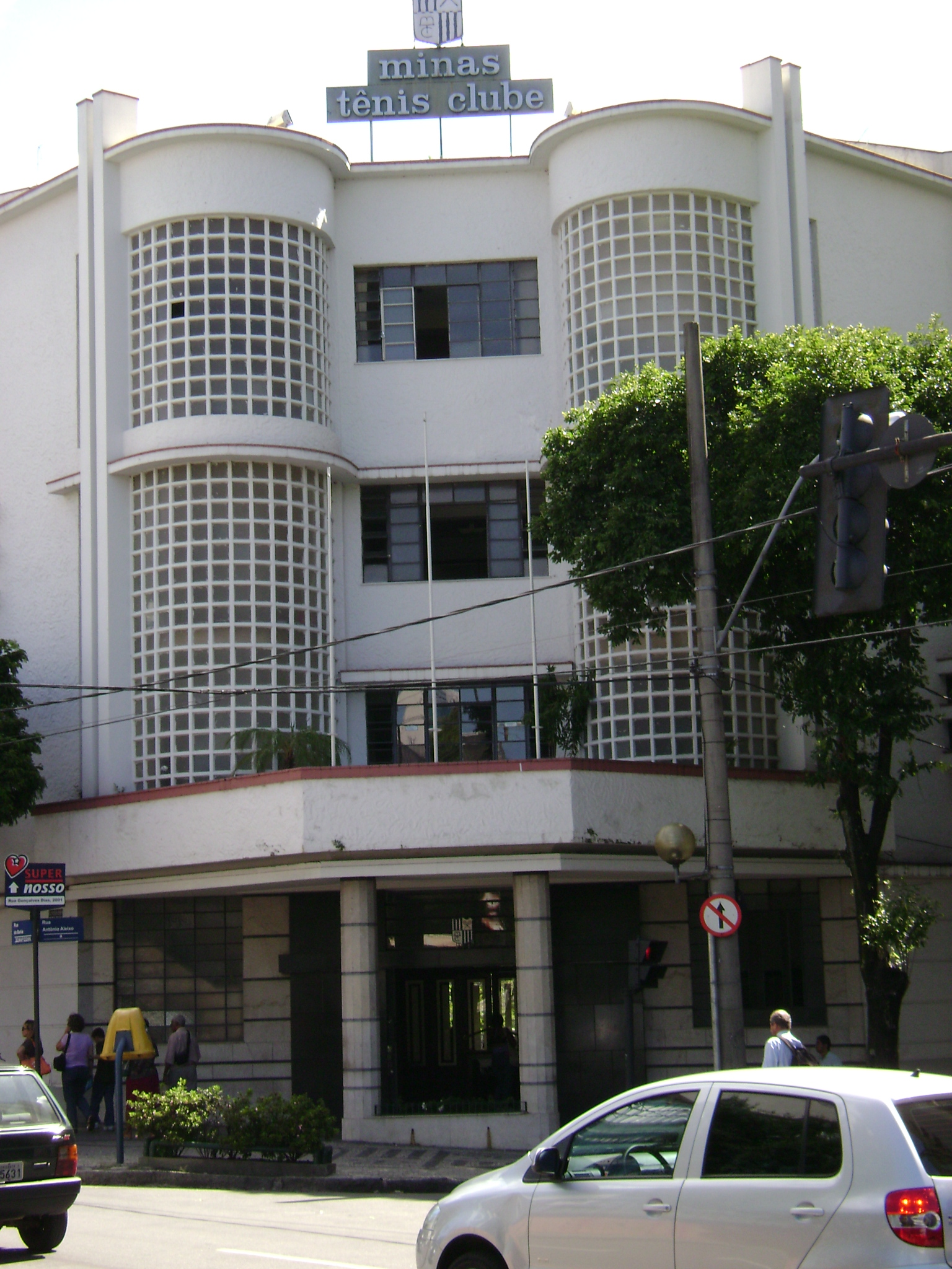 Entrance to the Modernist style Minas Tennis Club, in Belo Horizonte.